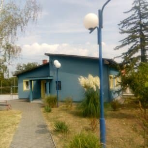 Primary school "Sveti Sava" Prnjavor